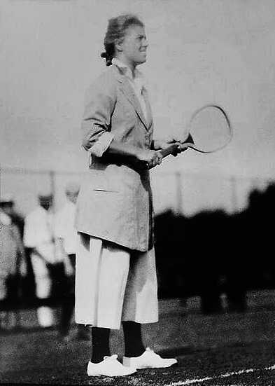 Eleanora Sears